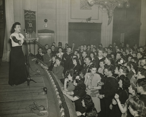 Molly Picon performing during a U.S.O. tour of camps in the United States during World War II, March 21, 1945